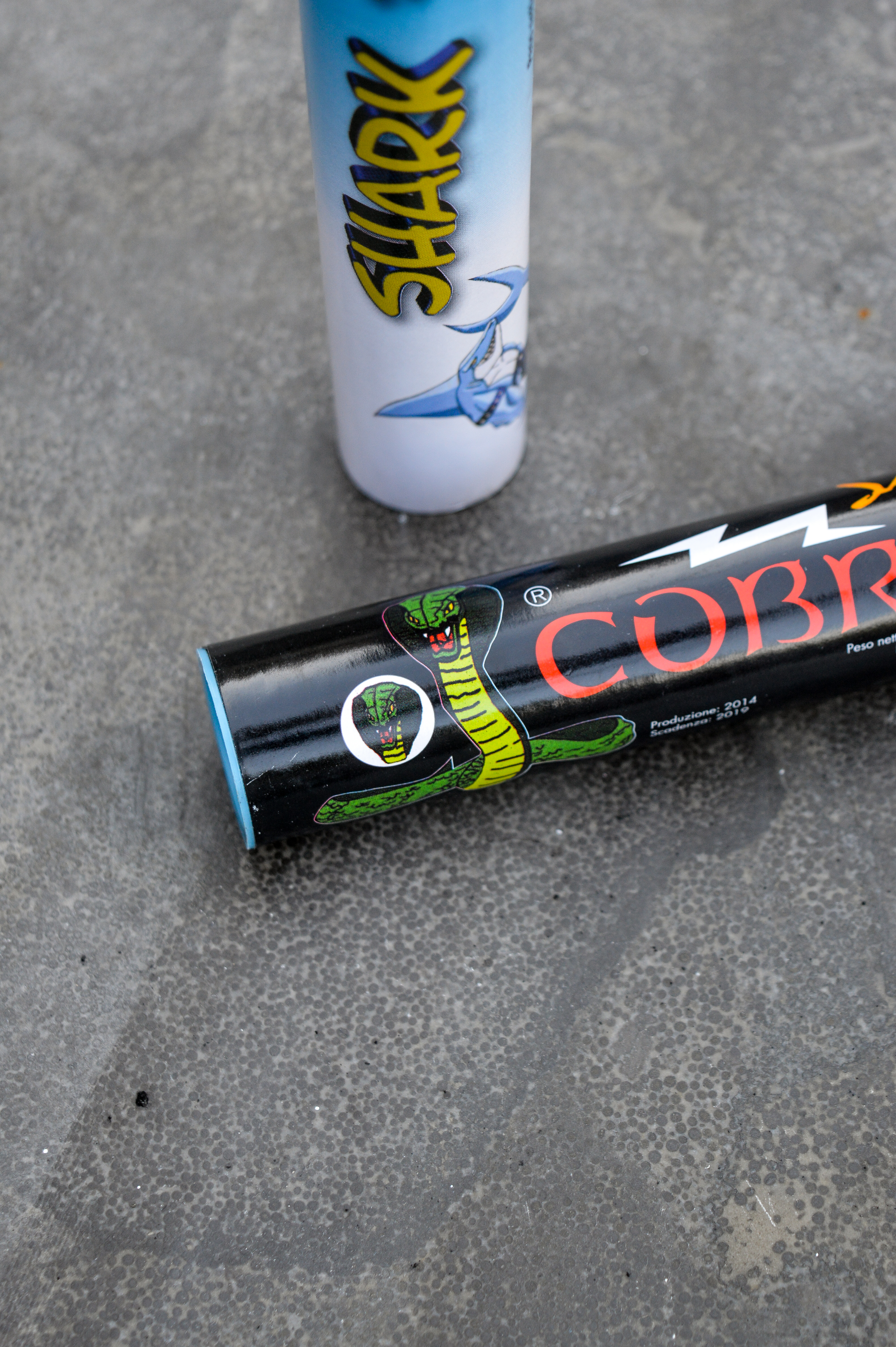 Cobra 6 and Shark 3